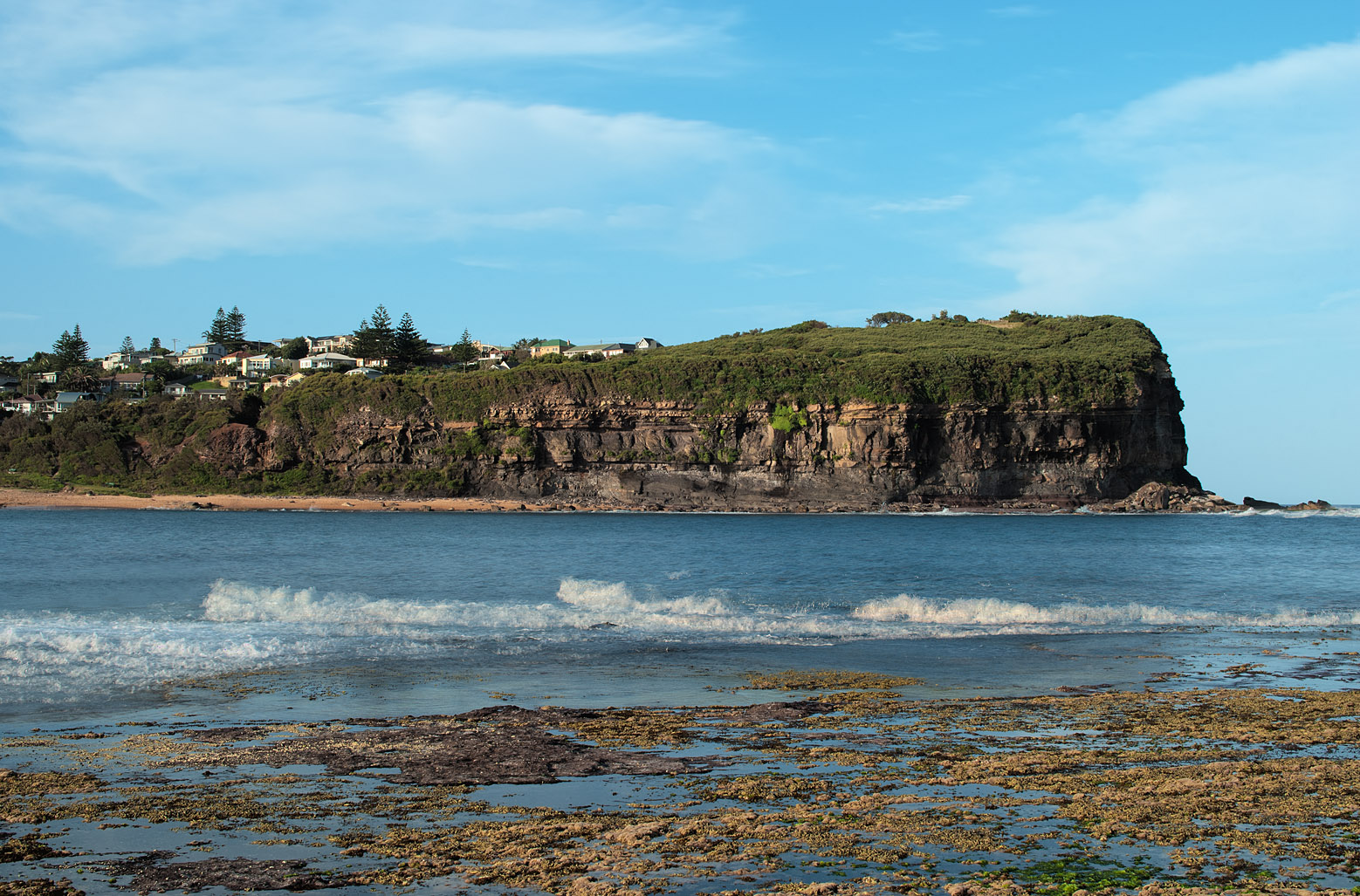 Basin Bay located right next to Mona Vale. This is a HDR of 9 shots.